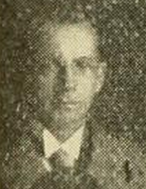 WE Mezenthin